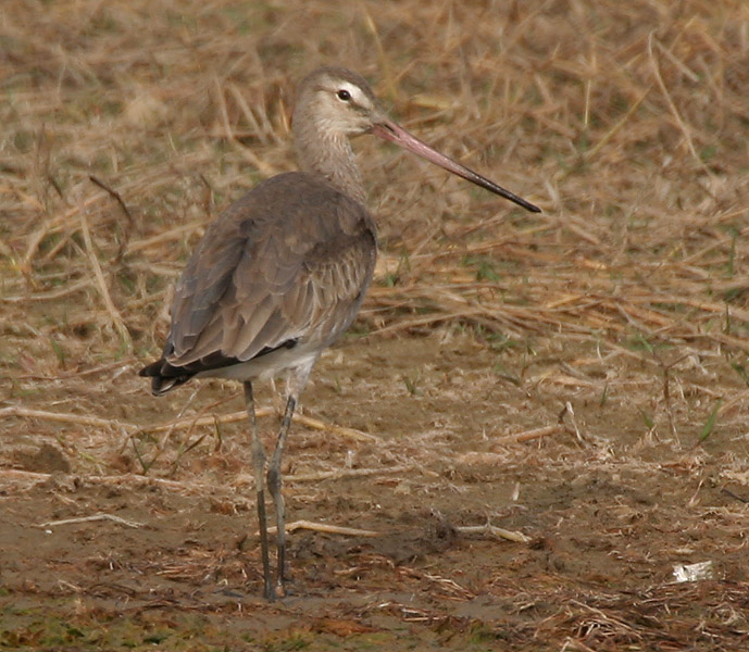 Black-tailed Goodwit Limosa limosa near Hodal, Faridabad, Haryana, India.